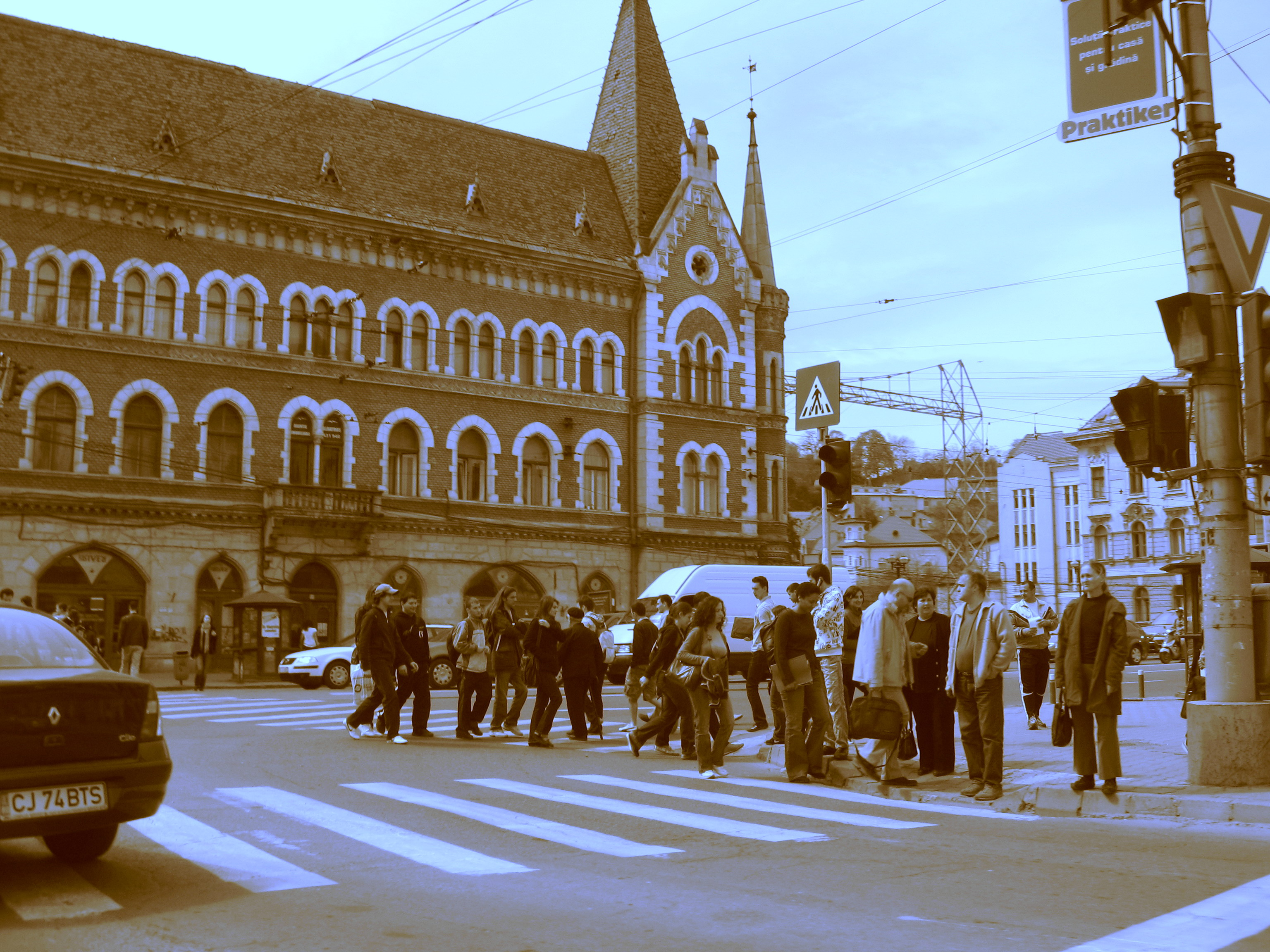 Cluj-Napoca, Széki Palace